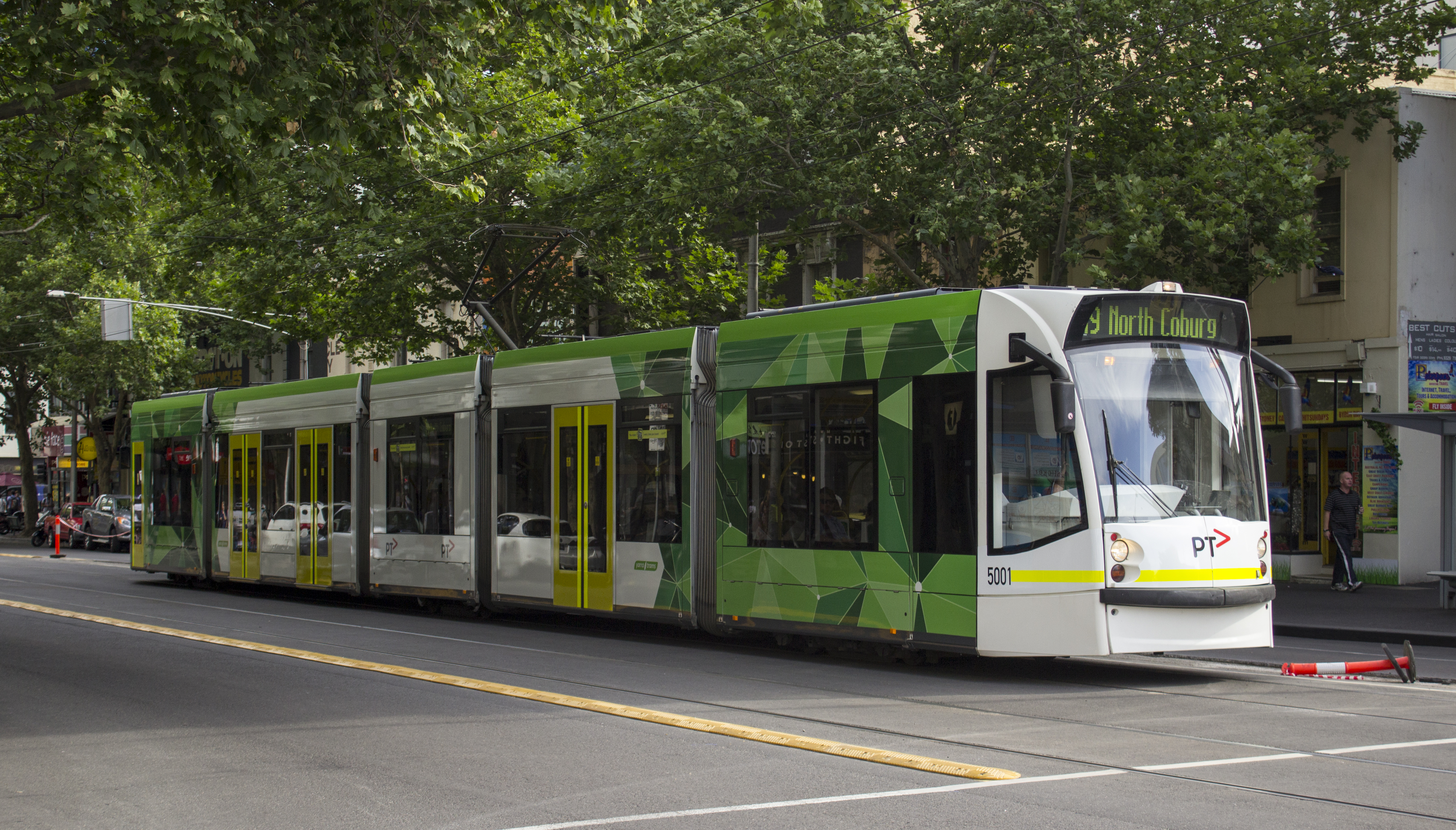 D2 5001 (Melbourne tram) in Elizabeth St on route 19 to North Coburg in Public Transport Victoria livery, December 2013.